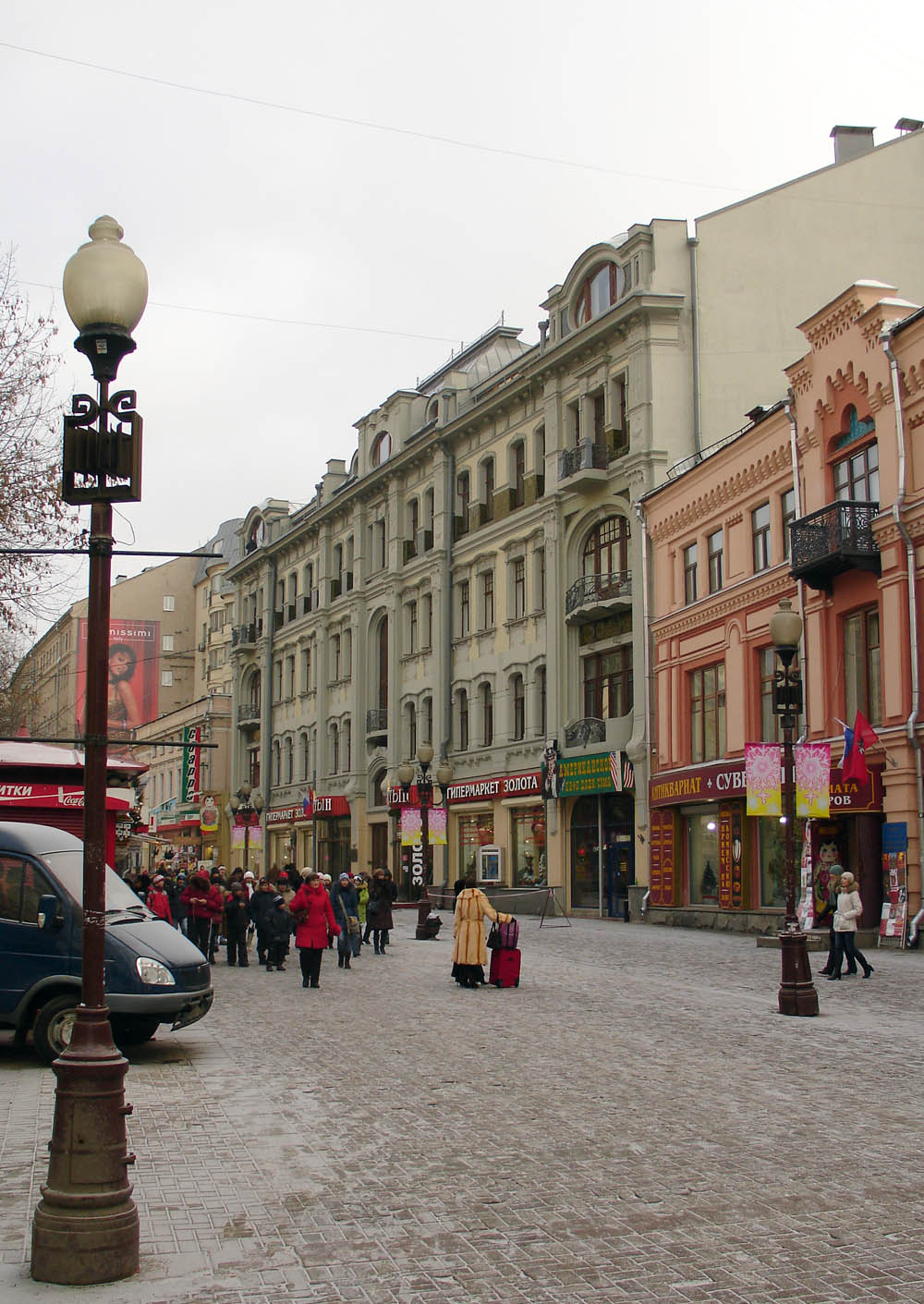 Arbat Street, Moscow. Unusually few people - between New Year and (orthodox) Christmas the city looks deserted.